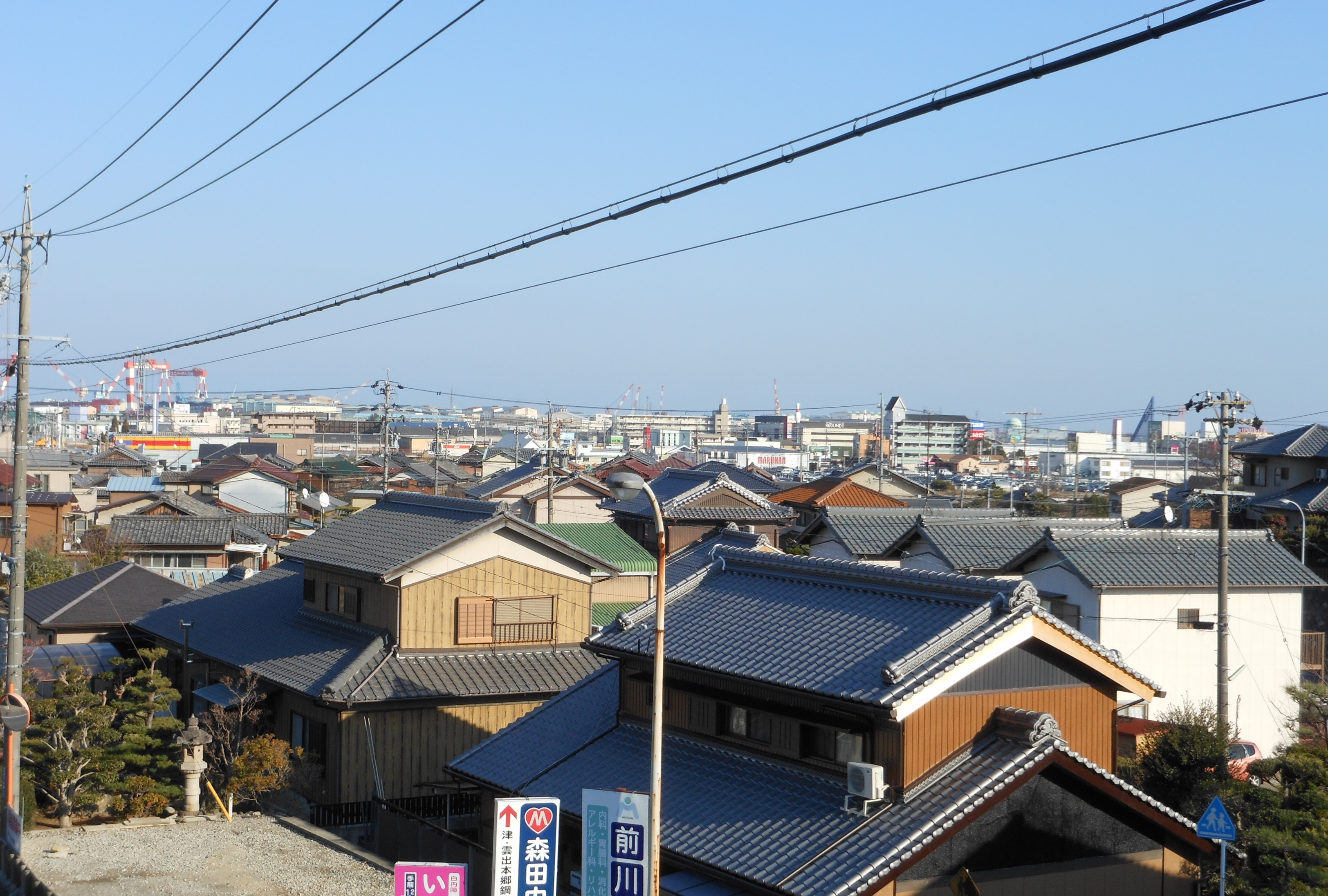 This is a landscape of Takajaya 2 and 3 chome, Tsu city, Mie prefecture, Japan.